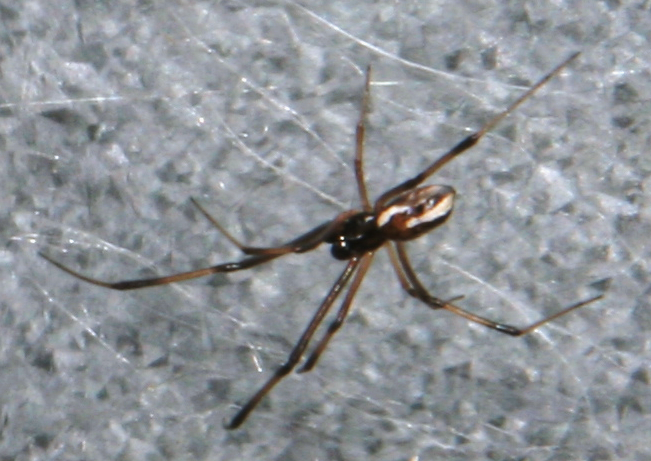 Male Latrodectus hasselti